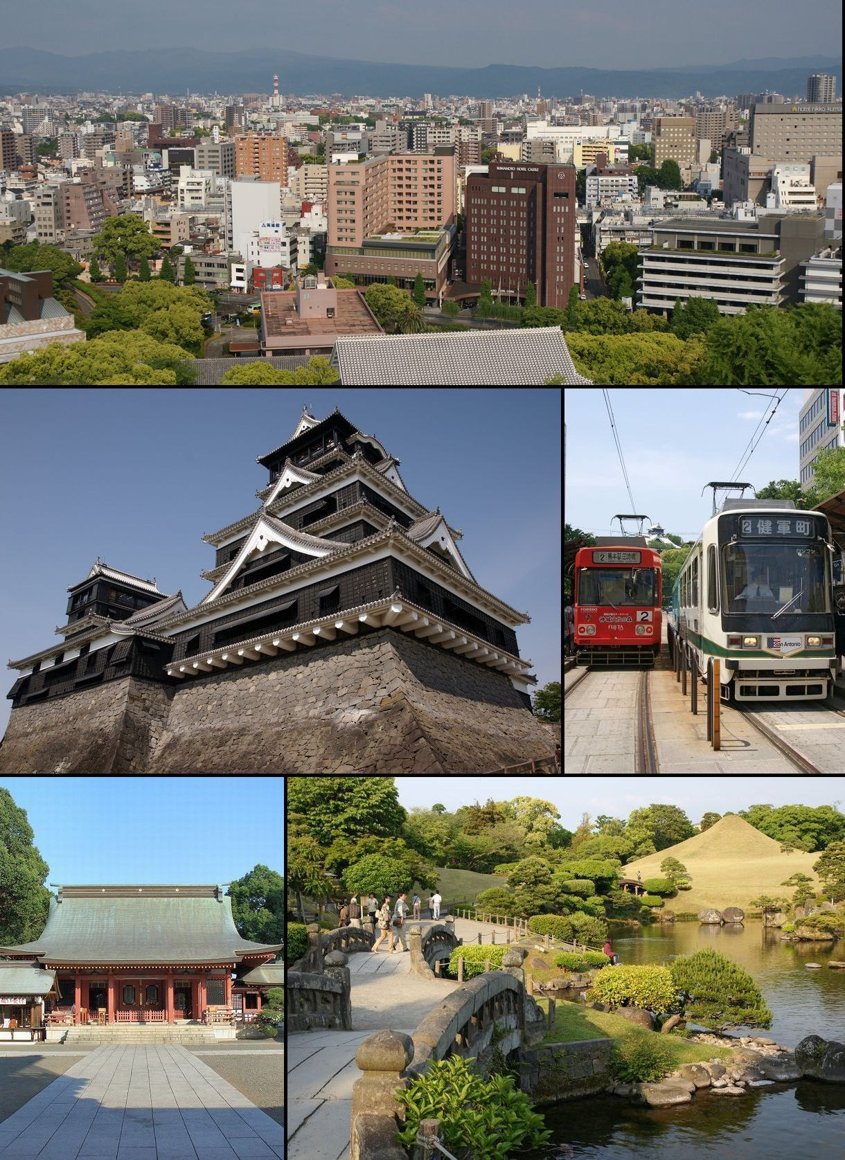 Kumamoto City, JAPAN From top left:Central Kumamoto view from Kumamoto Castle, Kumamoto Castle, Kumamoto City Tramway, Fujisaki hachimangu shrine, Suizenji jojuen